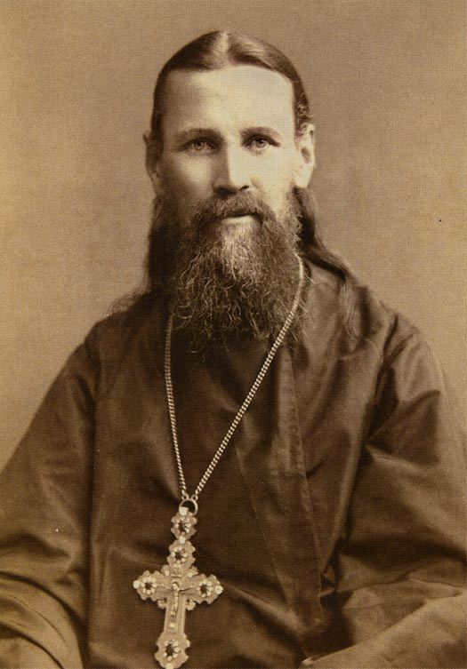 Saint John of Kronstadt, 1890s.